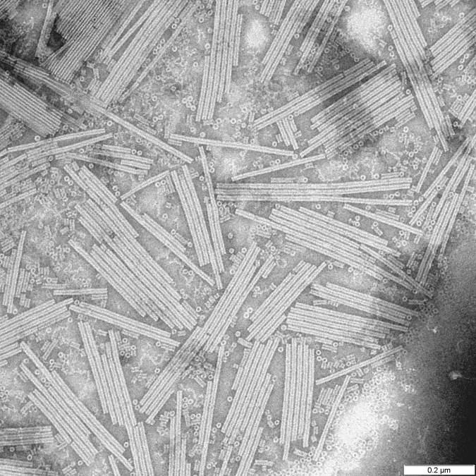 TMV Virus Author: T. Moravec Source: user:Xmort Virus particles were purified by PEG/NaCl precipitation and sucrose cushion ultracentrifugation. Virus was then resuspended in 20 mM PO4 buffer, pH=7.2 to final concentration 10mg/ml. Formvar coated grids were floated on drops containing virus for 30 minutes, 3 times washed in deionised water and then stained with 2% PTA for 5 minutes. ru: Вирус табачной мозаики ВТМ